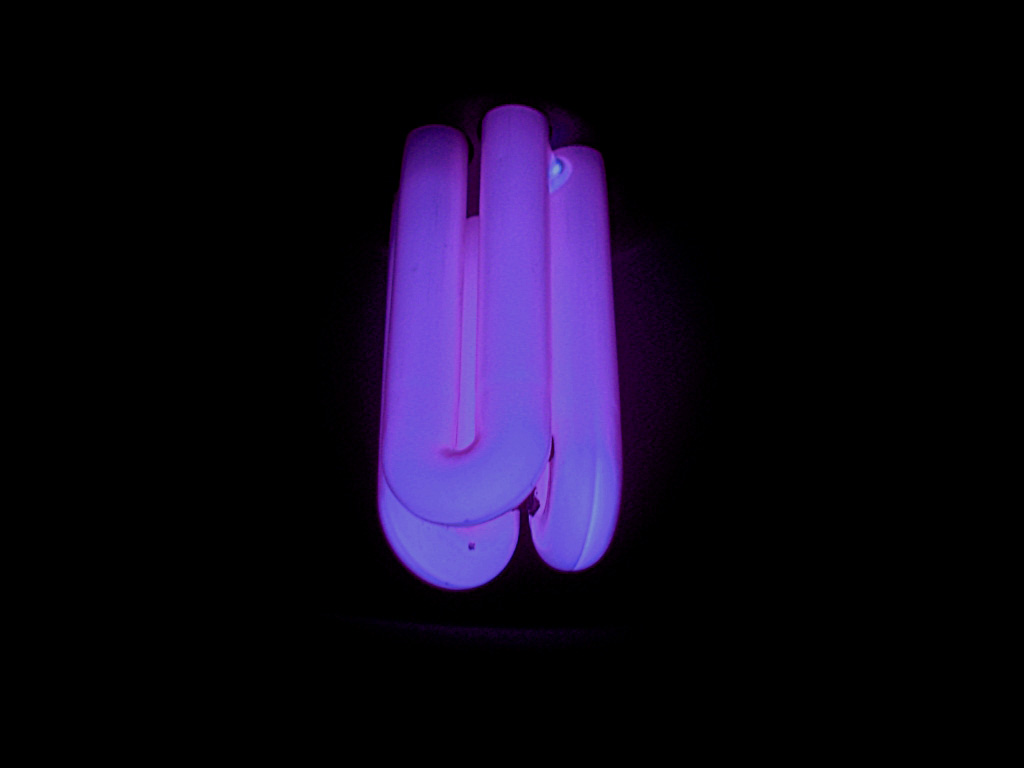 A Sanax 15W "black light" compact fluorescent bulb. It emits long-wave (UVA) ultraviolet light at around 365 nm, and is used for special lighting effects, such as illuminating fluorescent posters. The purple glow of the bulb is not the ultraviolet light itself, which is invisible, but visible purple light from mercury's 404 nm spectral line which leaks through the filter coating on the bulb, which is designed to stop most visible light and pass the ultraviolet. To the human eye, the light is much more blue, due to differences between the response of the eye and the camera sensor.